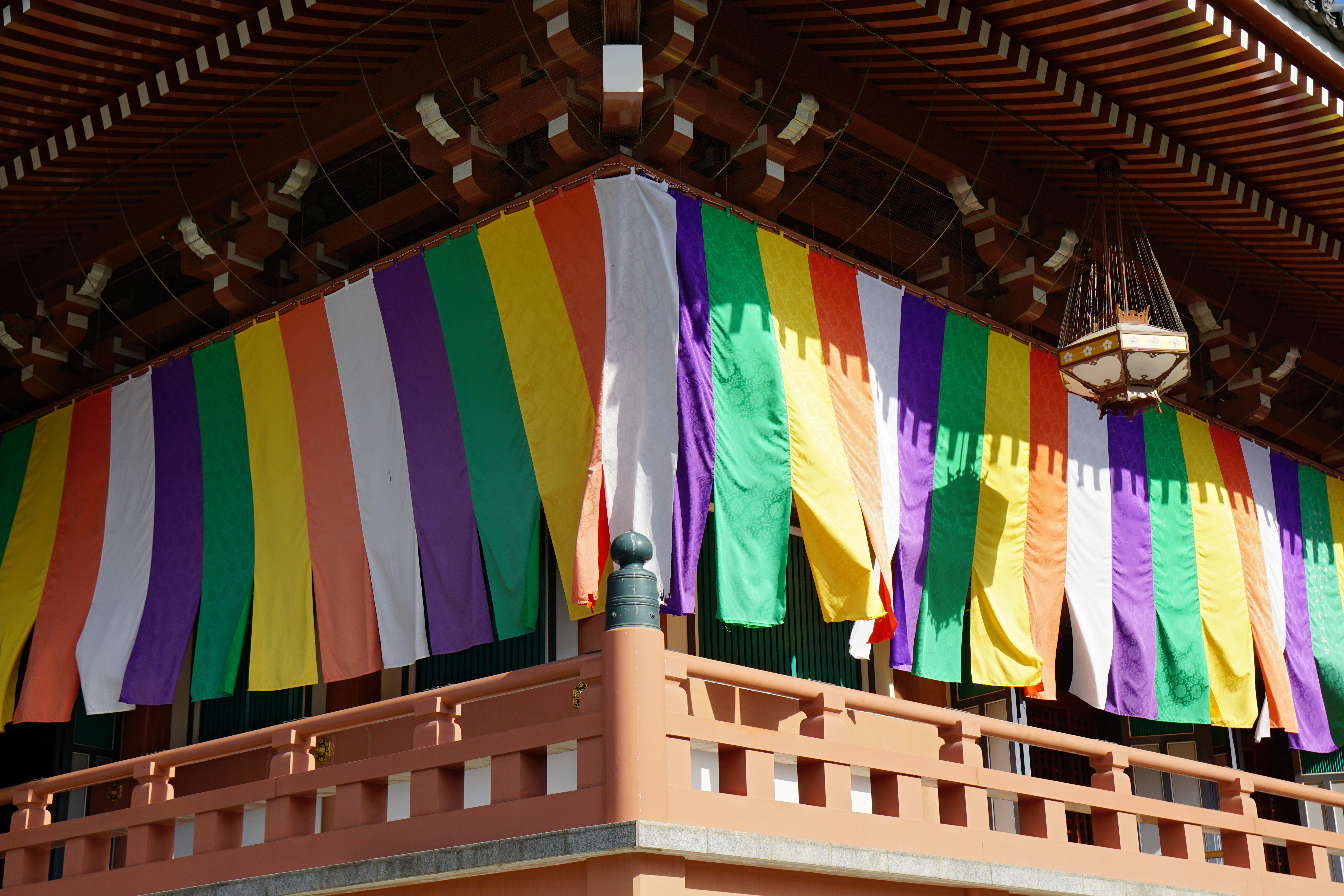 At Chishaku-in, Higashiyama-ku, Kyoto, Kyoto prefecture, Japan.